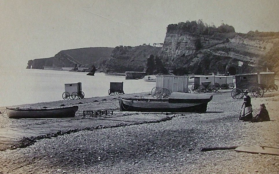 Photograph taken in May 1881 by Philip Rupert Acott. Owned by Andy Titcomb